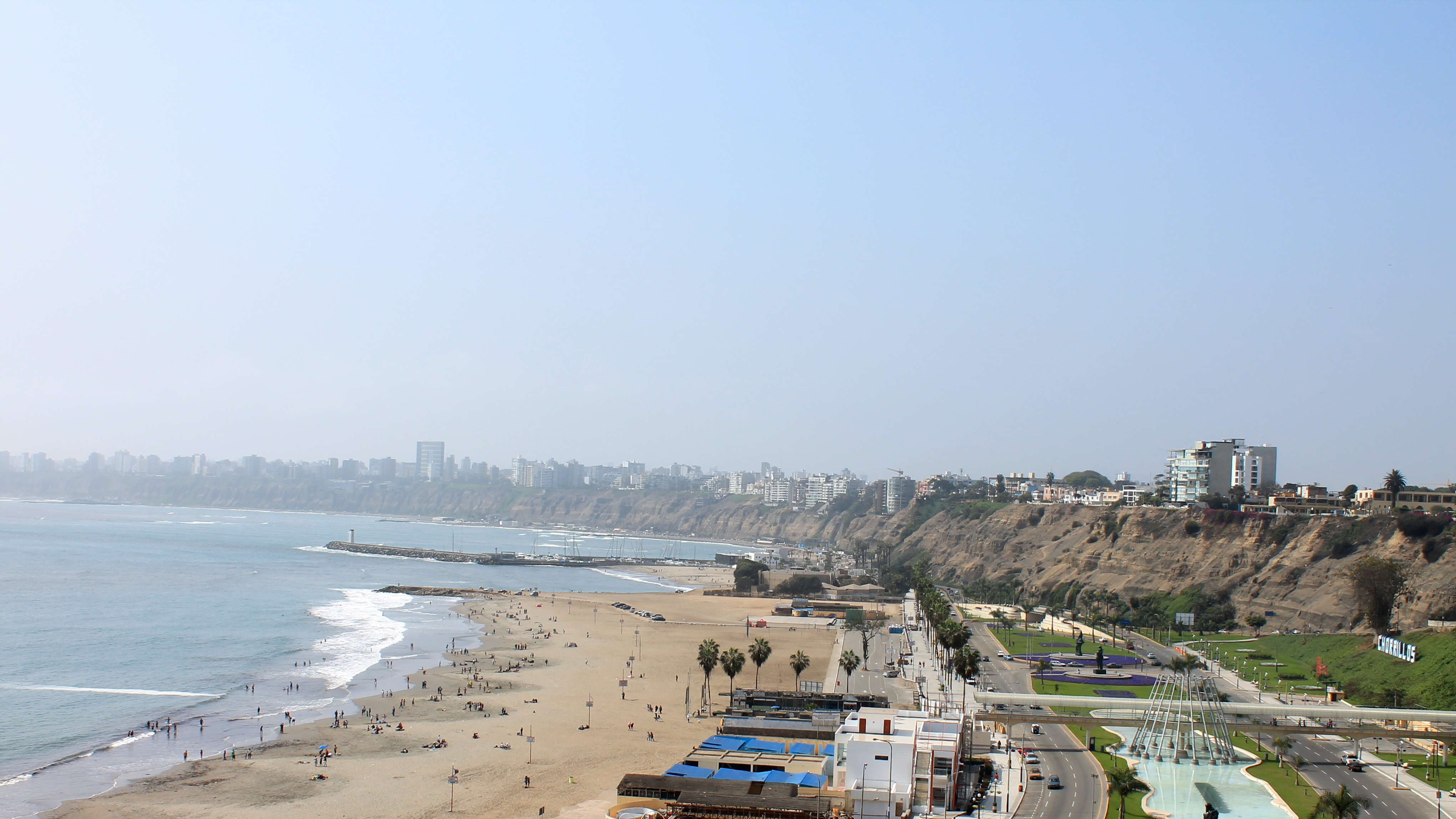 Panorama of the Lima cityscape taken from Morro solar.